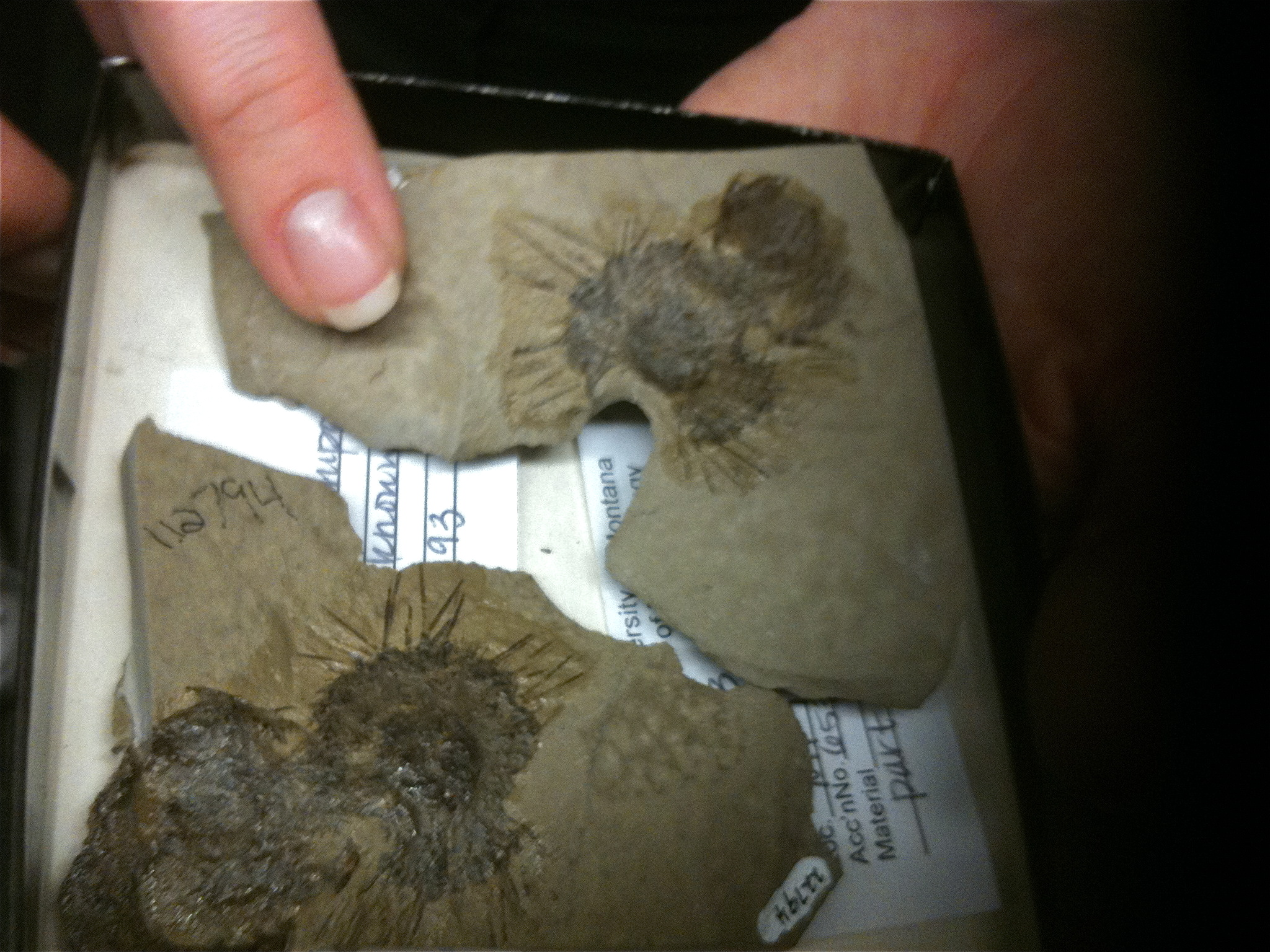 Unknown Bear Gulch sea urchin. Displayed at National Fossil Day 2011, from the collection of the University of Montana Paleontology Center, Missoula.